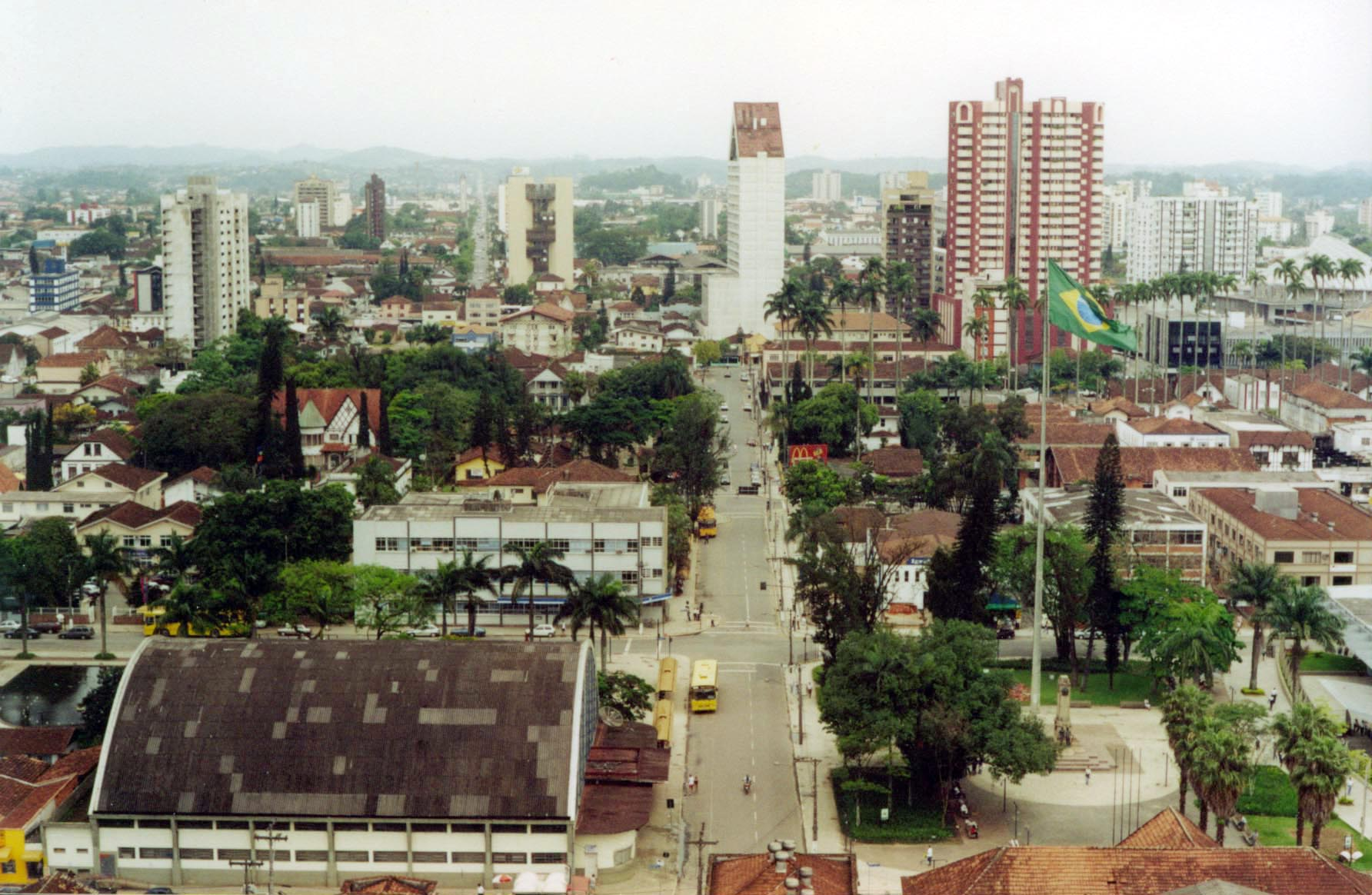 City of Joinville, Brazil.